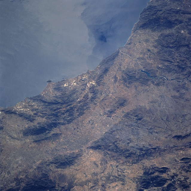 Sierra de Almenara in Lorca, Región de Murcia, Spain